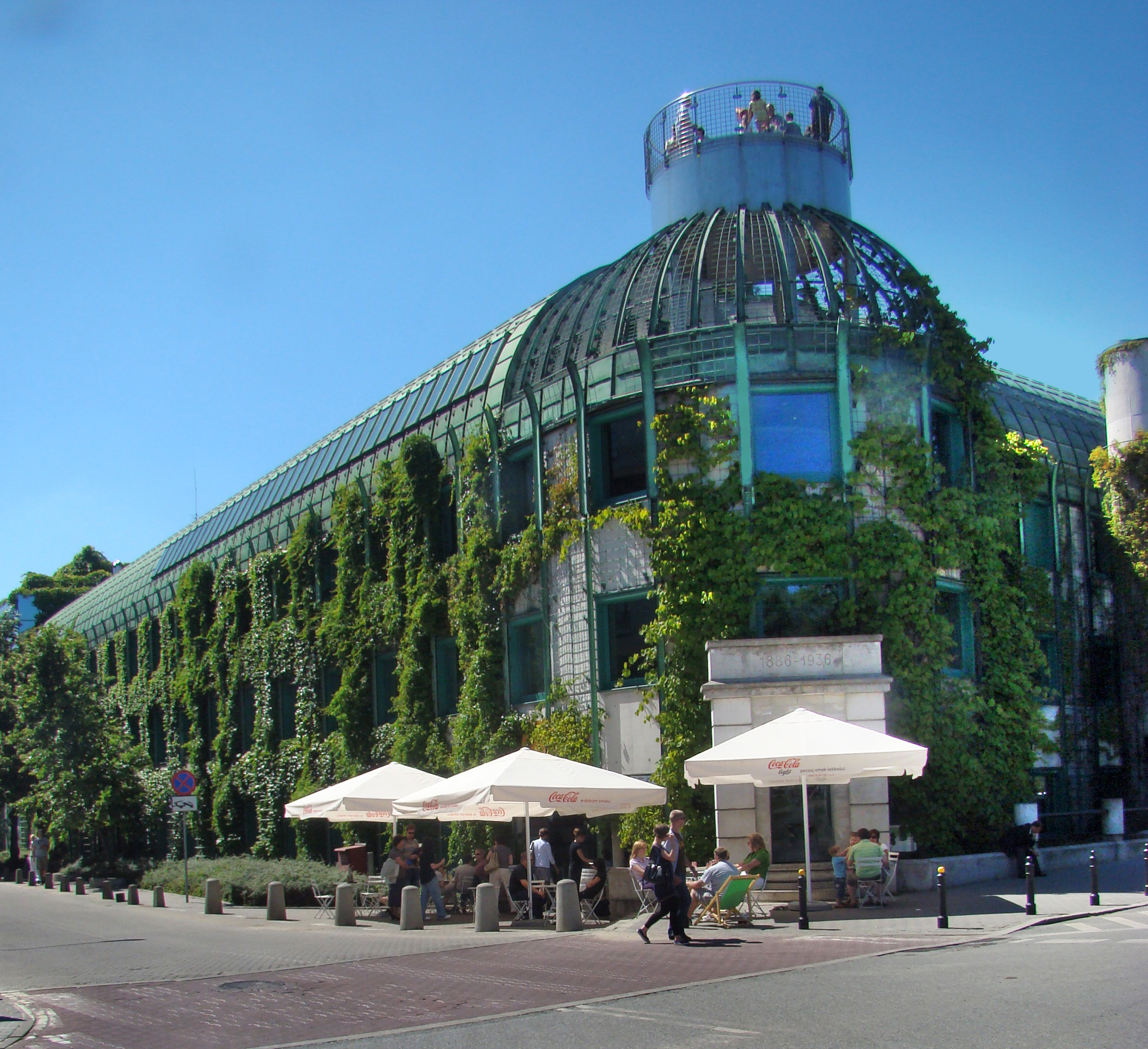 Warsaw University Library